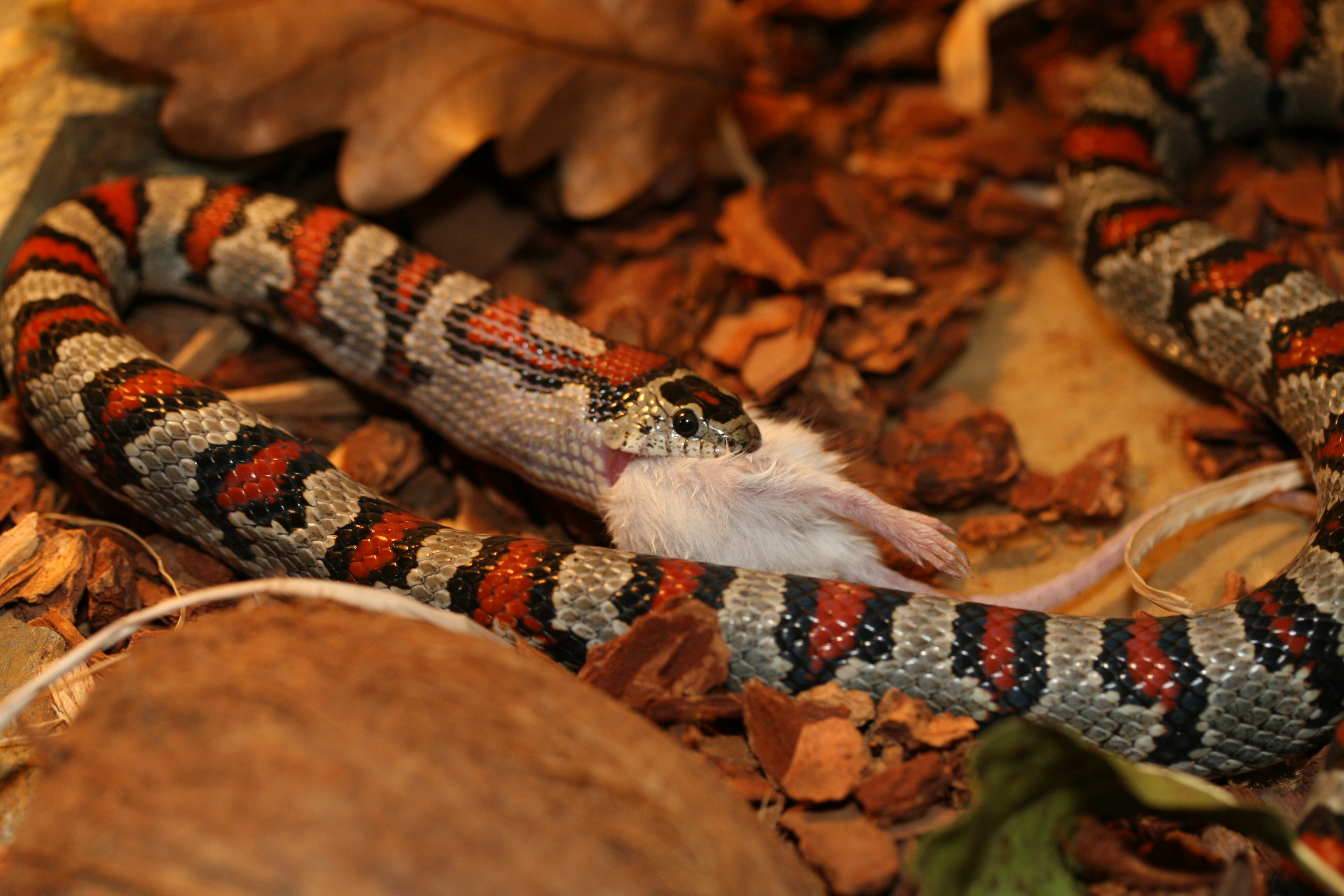 Lampropeltis Mexicana Greeri snake in private collection of Jakub Seif. Feeding